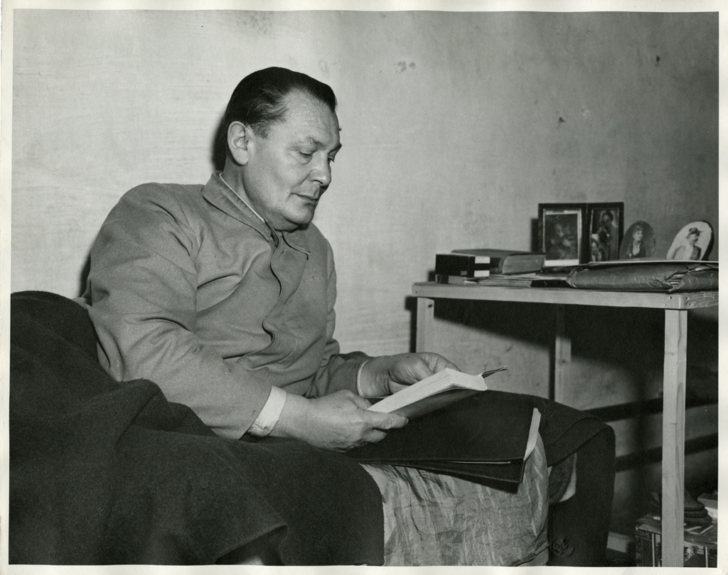 Commander of the Luftwaffe Hermann Göring, photographed in his jail cell at Nuremberg, Germany, during the Nuremberg Trials. Göring is seen reading a book while lying on his bed in his cell. Gelatin silver process on paper. 28 x 35.3 cm. Image courtesy of the Harvard Law School Library, Harvard University, Cambridge, Mass.